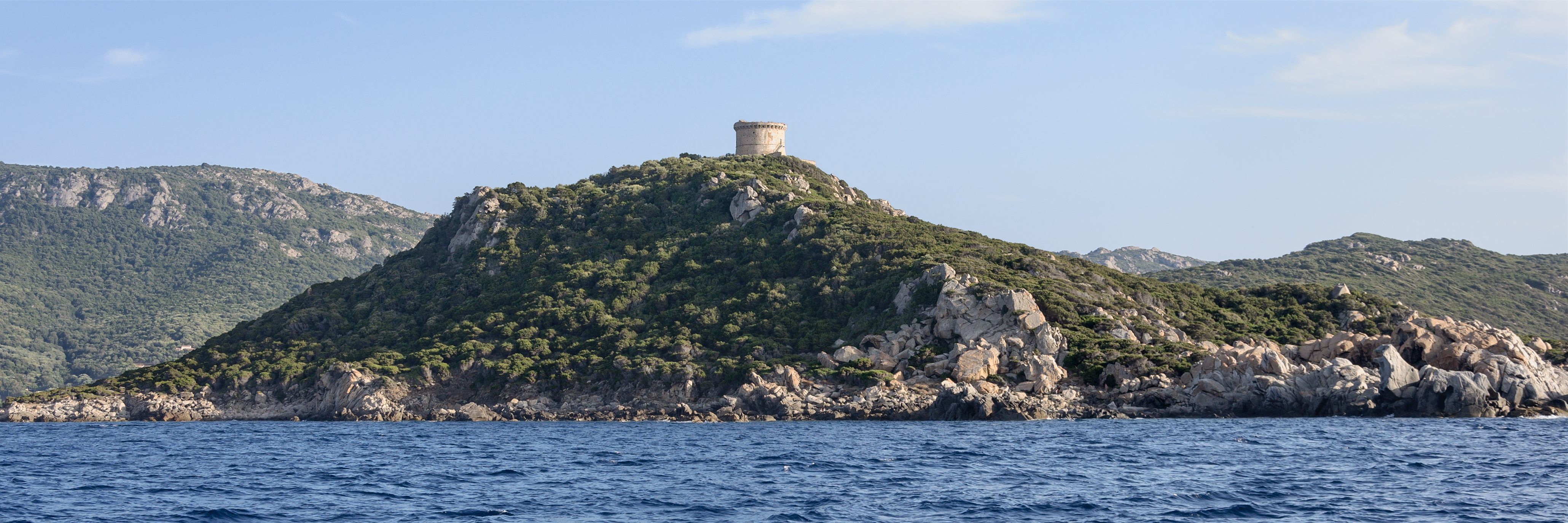 Punta di Campomoro, where stands the Genoese tower of Campomoro, Belvédère-Campomoro, Southern Corsica, France. Corsu: Punta di Campomoro, Corsica suttana